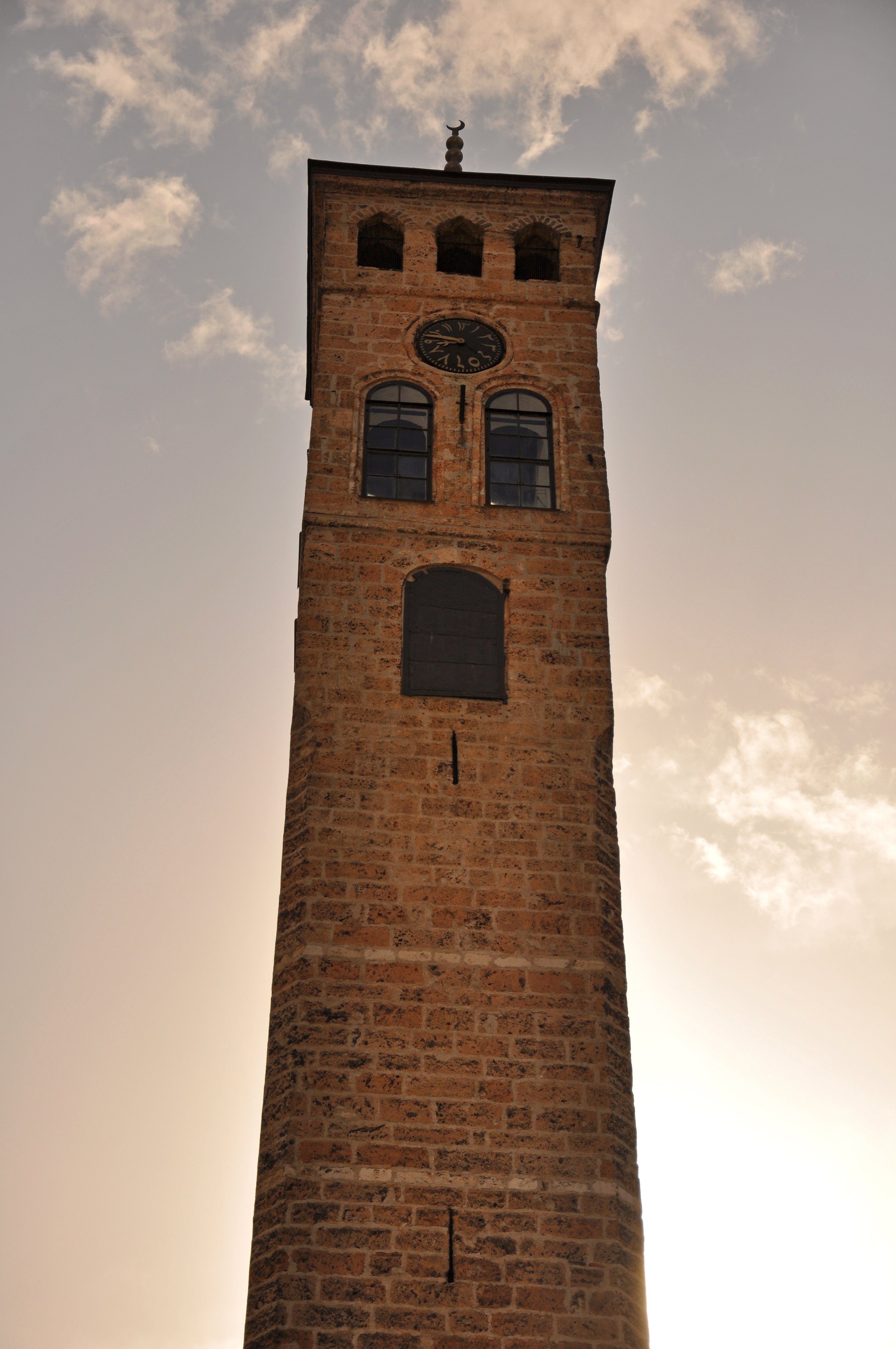 Built in the 17th century, it's one of the highest in Bosnia and Herzegovina. After a fire in 1697, it was restored, then damaged again, and then restored once more in 1762. It is believed that this is the only (public) clock in the world that shows the time by the Lunar calendar. It stands exactly at noon at the moment of sunset in Sarajevo. When, during the Islamic holy month of Ramadan, the clock tower strikes 00:00, it's the time of Iftar--the evening meal when Muslims break their fast. After the first beat, on the Beys mosque kandilji are lighted, and after that from Bijela Tabija, cannon which traditionally shoots, indicates the end of fasting for that day.